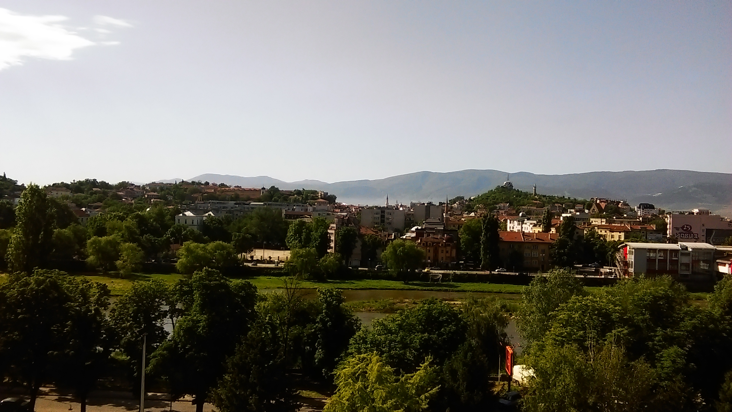 Plovdiv